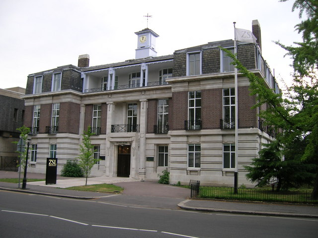 Zoological Society of London, Outer Circle NW1